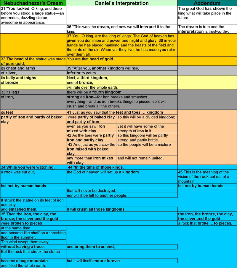 A paraphrase of Daniel 2 placing in parallel prophecy and interpretation phrases.